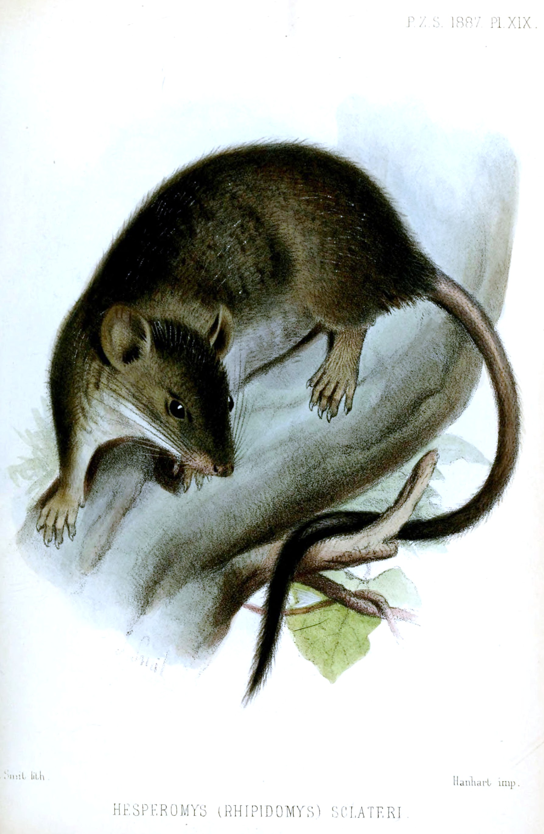 Hesperomys (Rhipidomys) sclateri = Rhipidomys leucodactylus